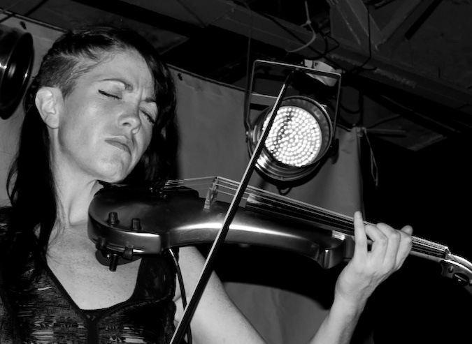 Sarah (Sadie) Anderson of The Kilimanjaro Darkjazz Ensemble at concert in Avant club in Moscow on 2010, April, 23.